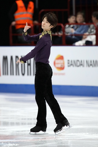 Photos – World Championships 2018 – Men (Kazuki TOMONO JPN – 5th Place)